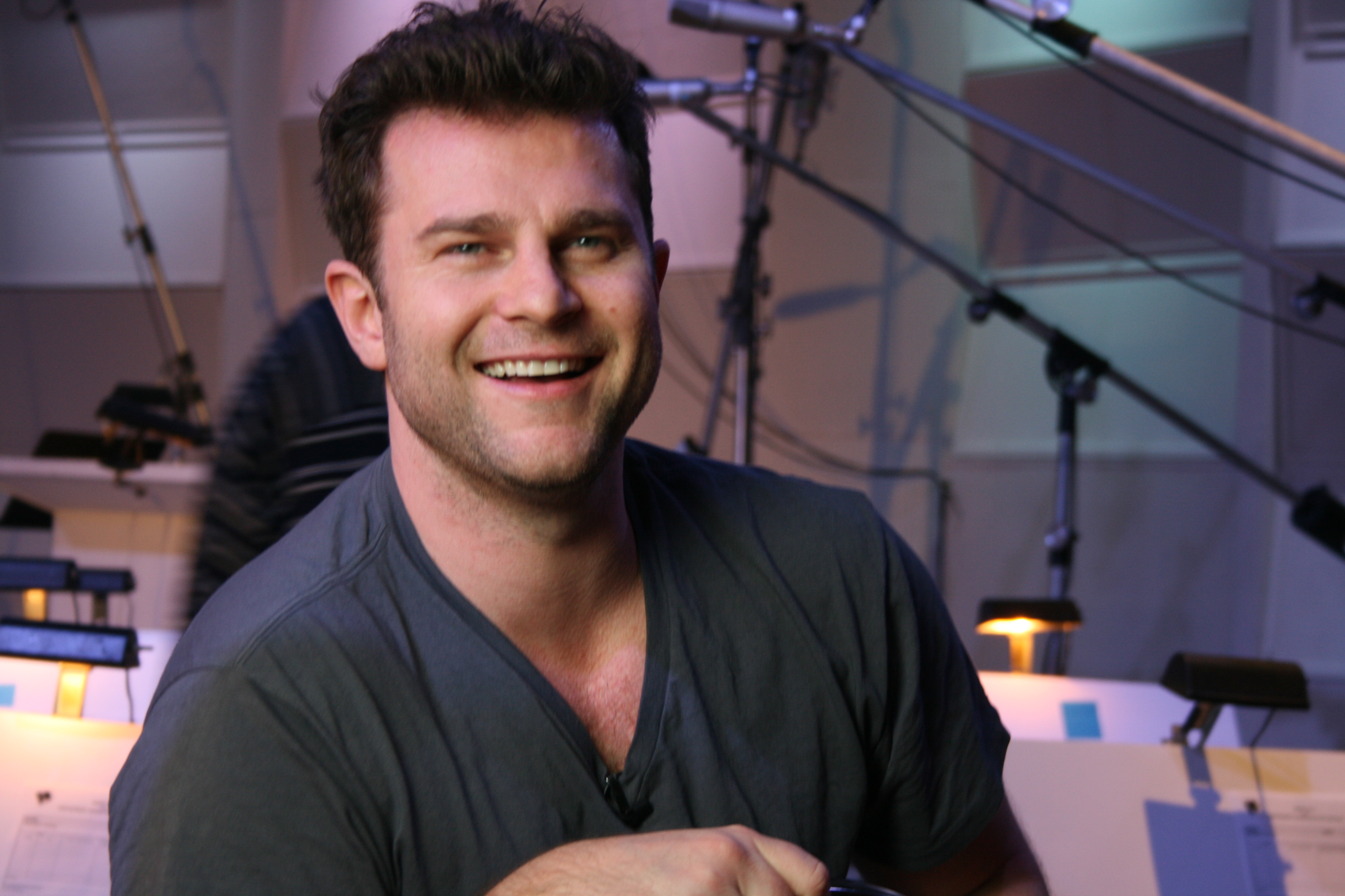 David Campbell in the recording studio